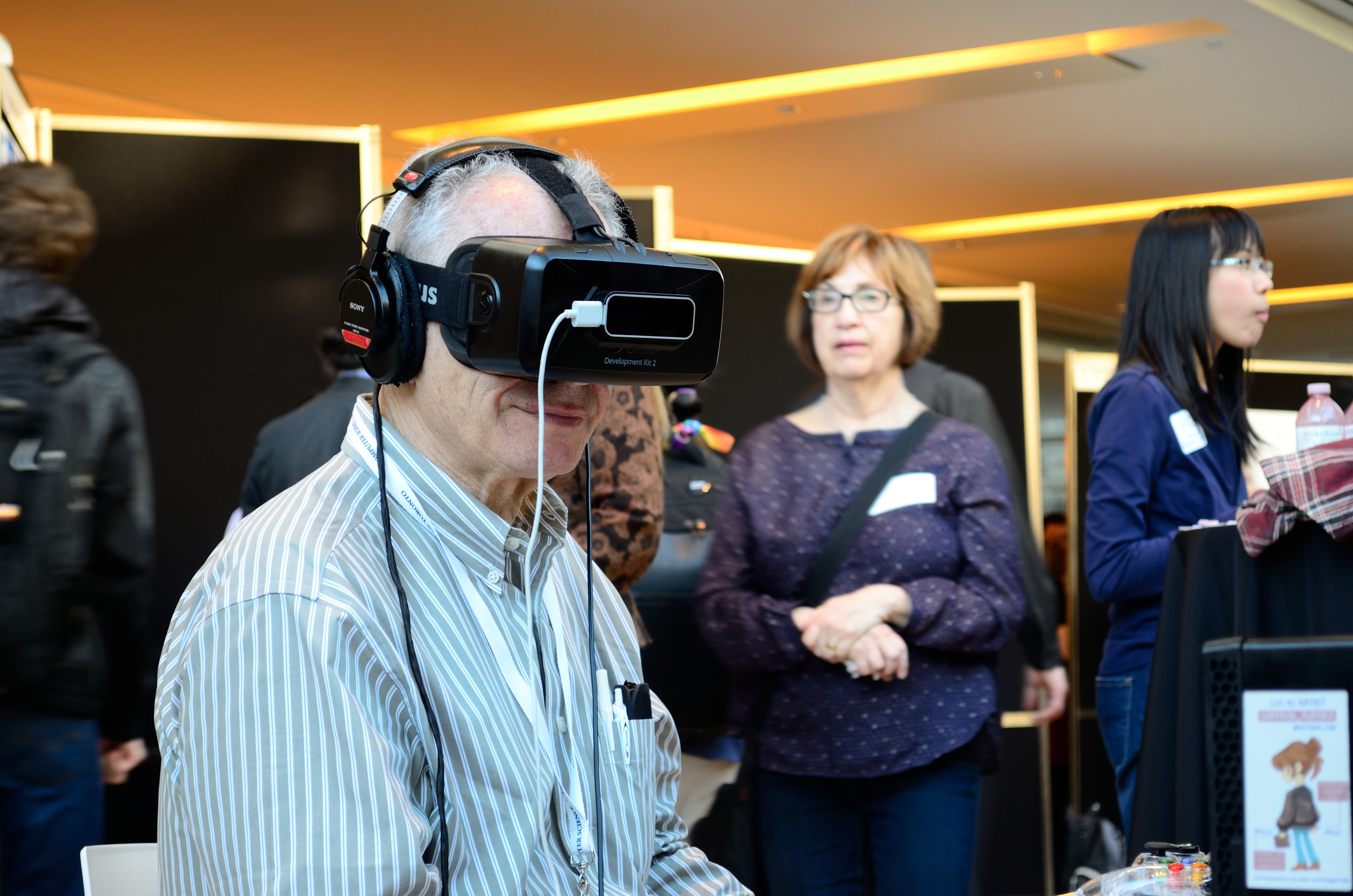 Research in Action Showcase at the University of Toronto.